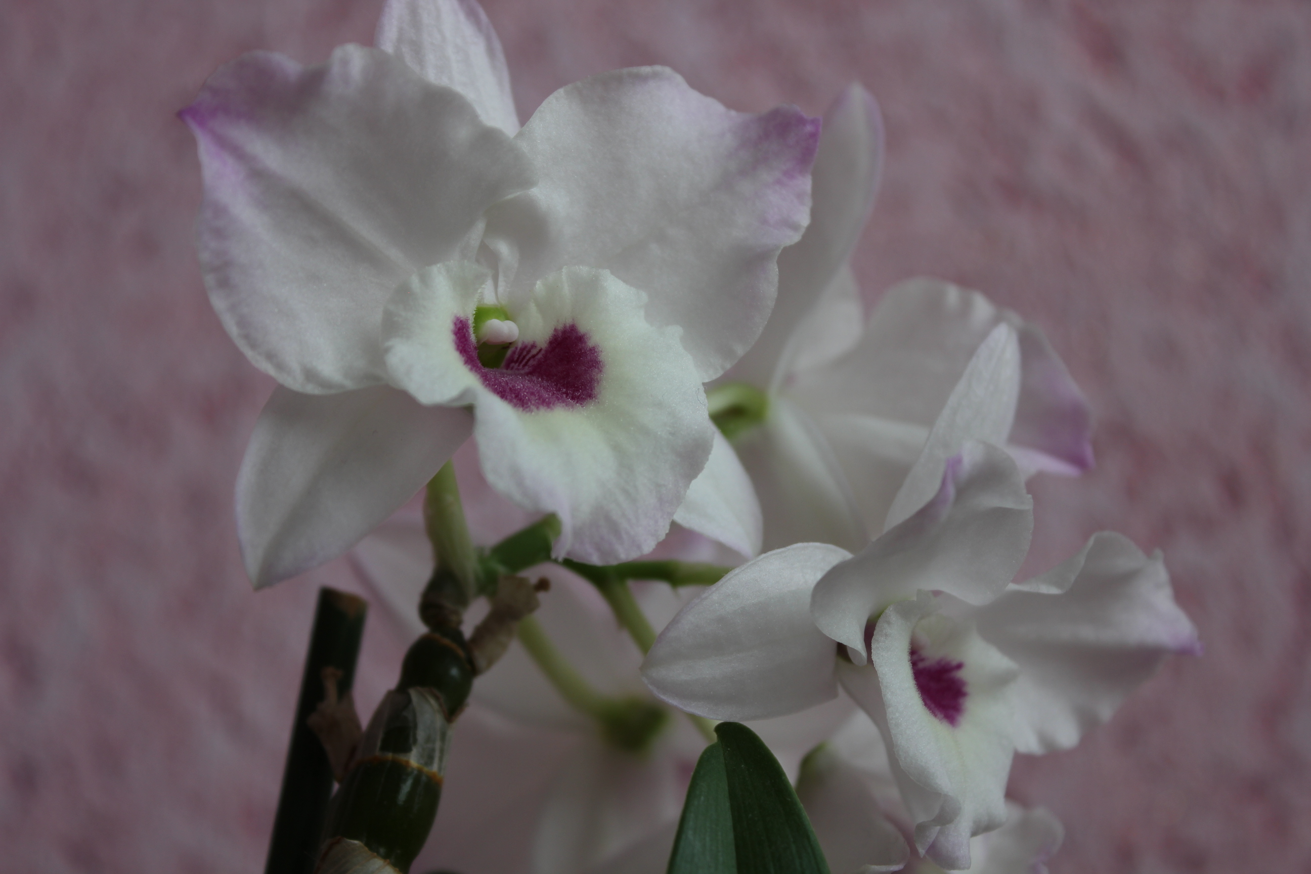 Dendrobium nobile